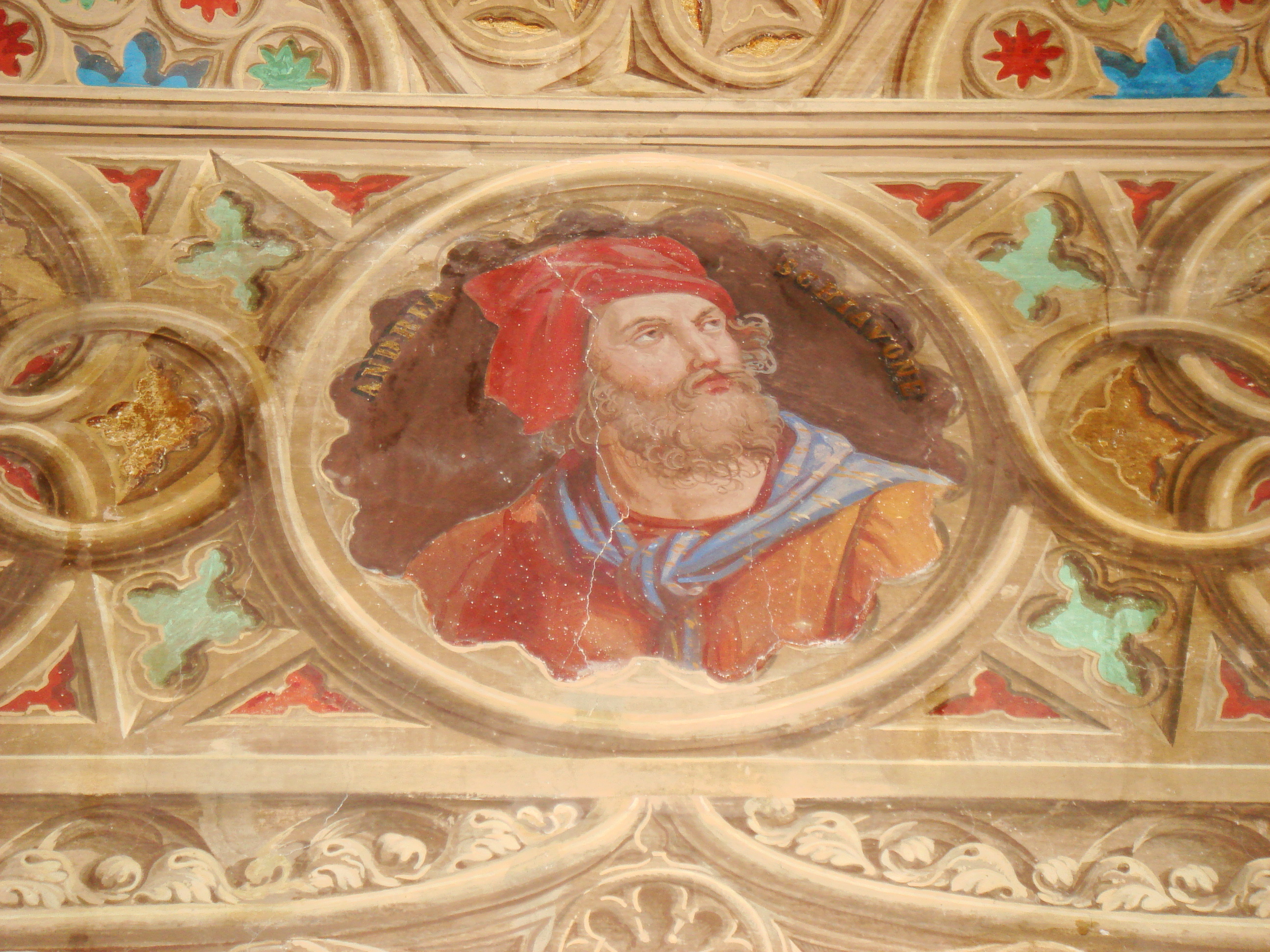 Rome, Italy. .